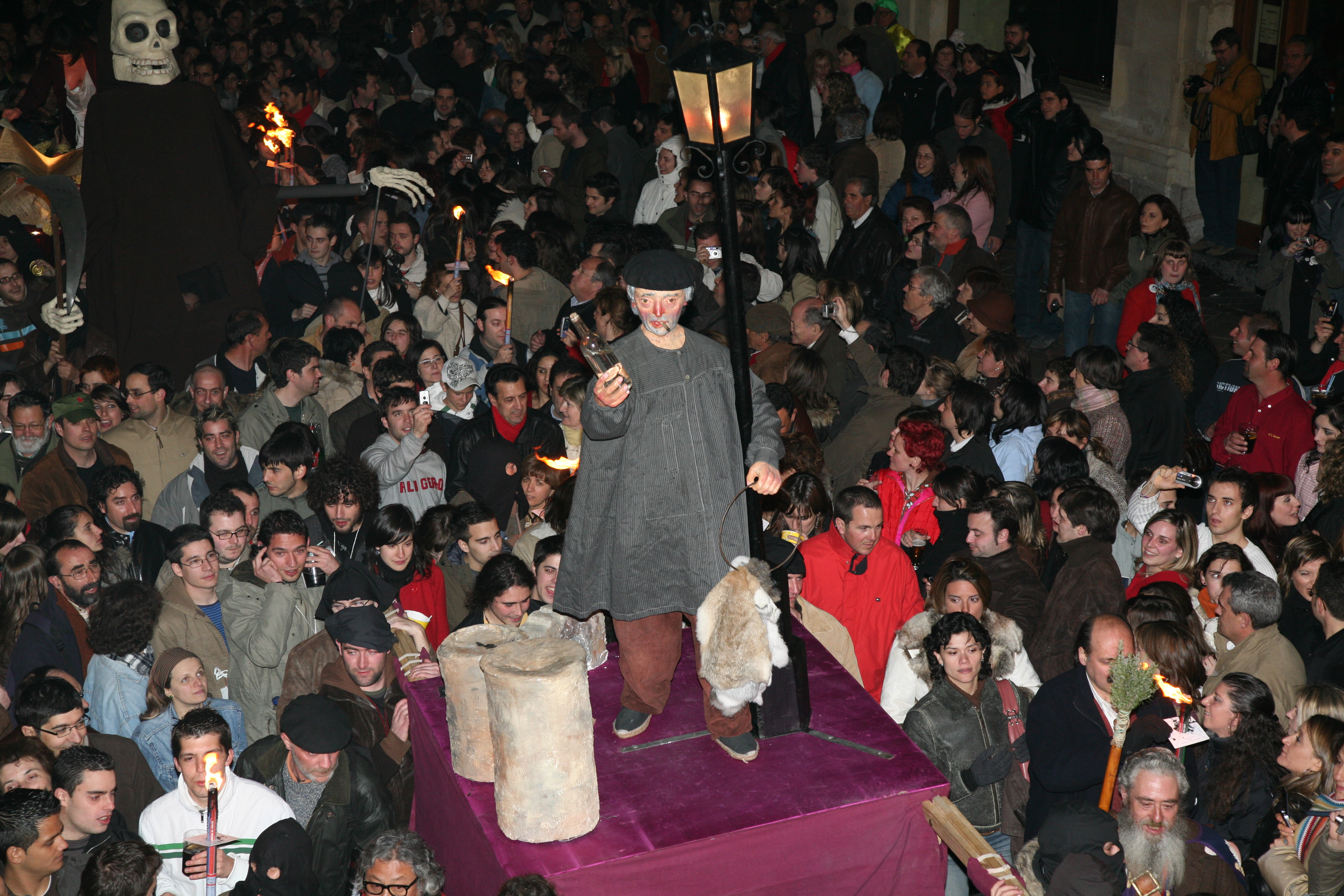 Genaro seguido por la Muerte en la procesión del Entierro de Genarín